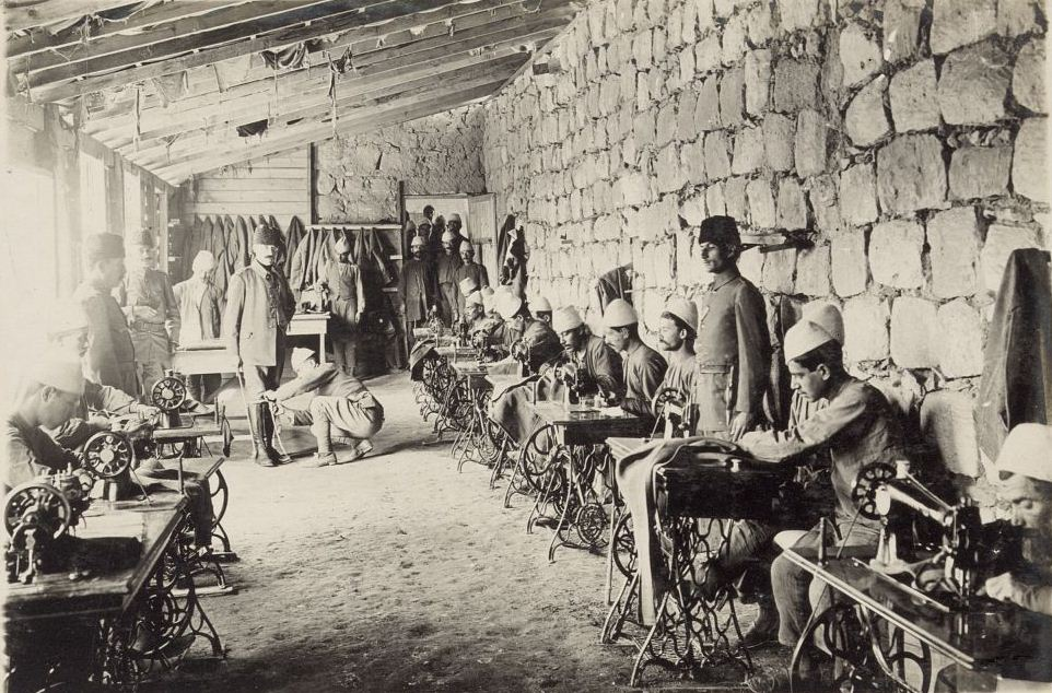 Military tailors, Beersheba, 1917.